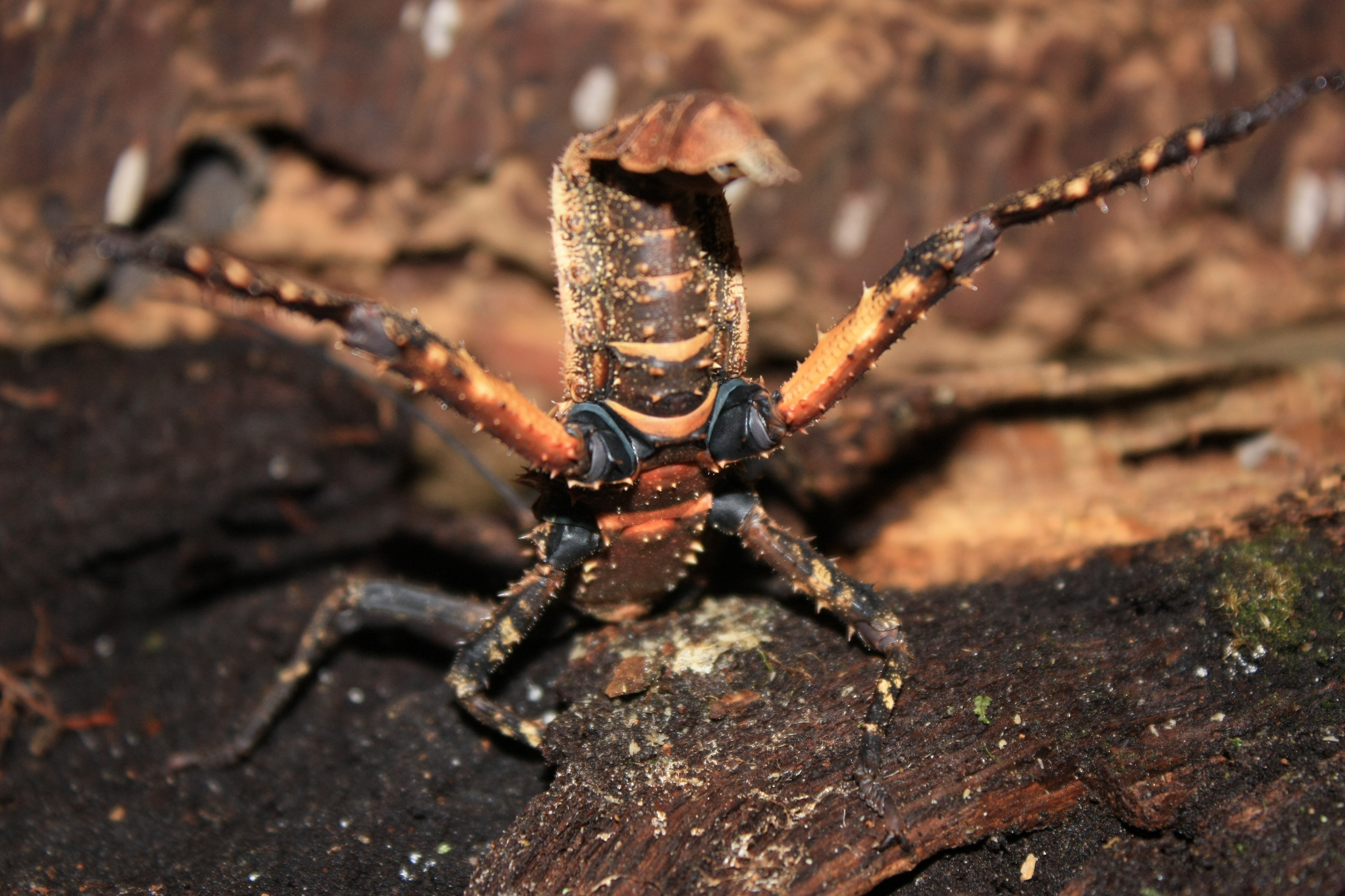 subadult threaten female of De Haan's Haaniella (Haaniella dehaanii) from ventral